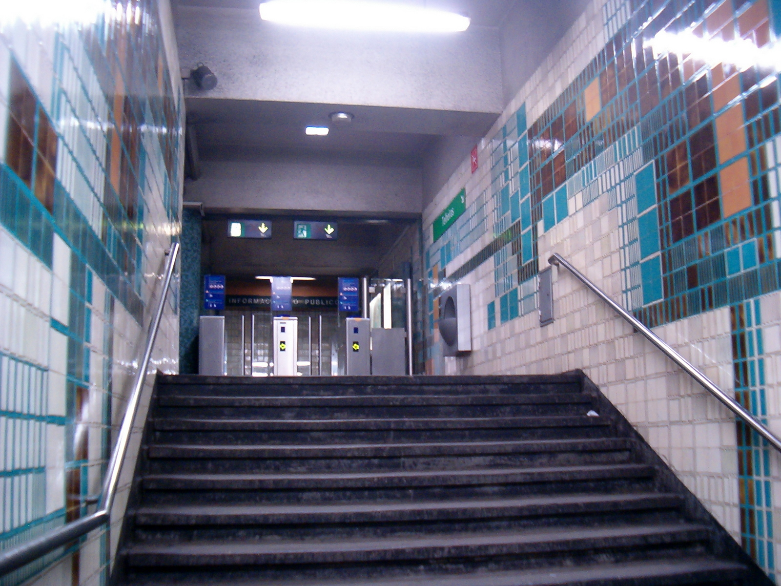 Metro station Intendente (Lisboa); azulejos by Maria Keil